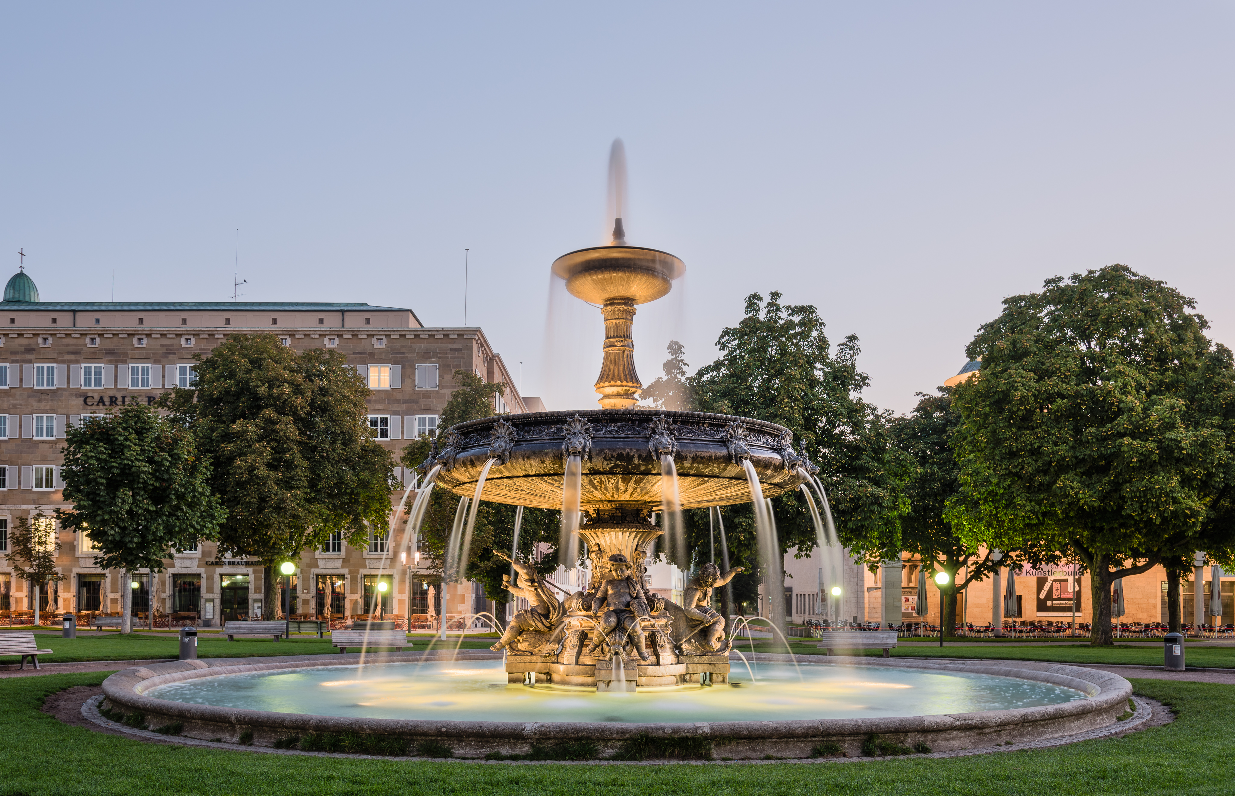 Schlossplatzspringbrunnen (Schlossplatz, Stuttgart, Germany).